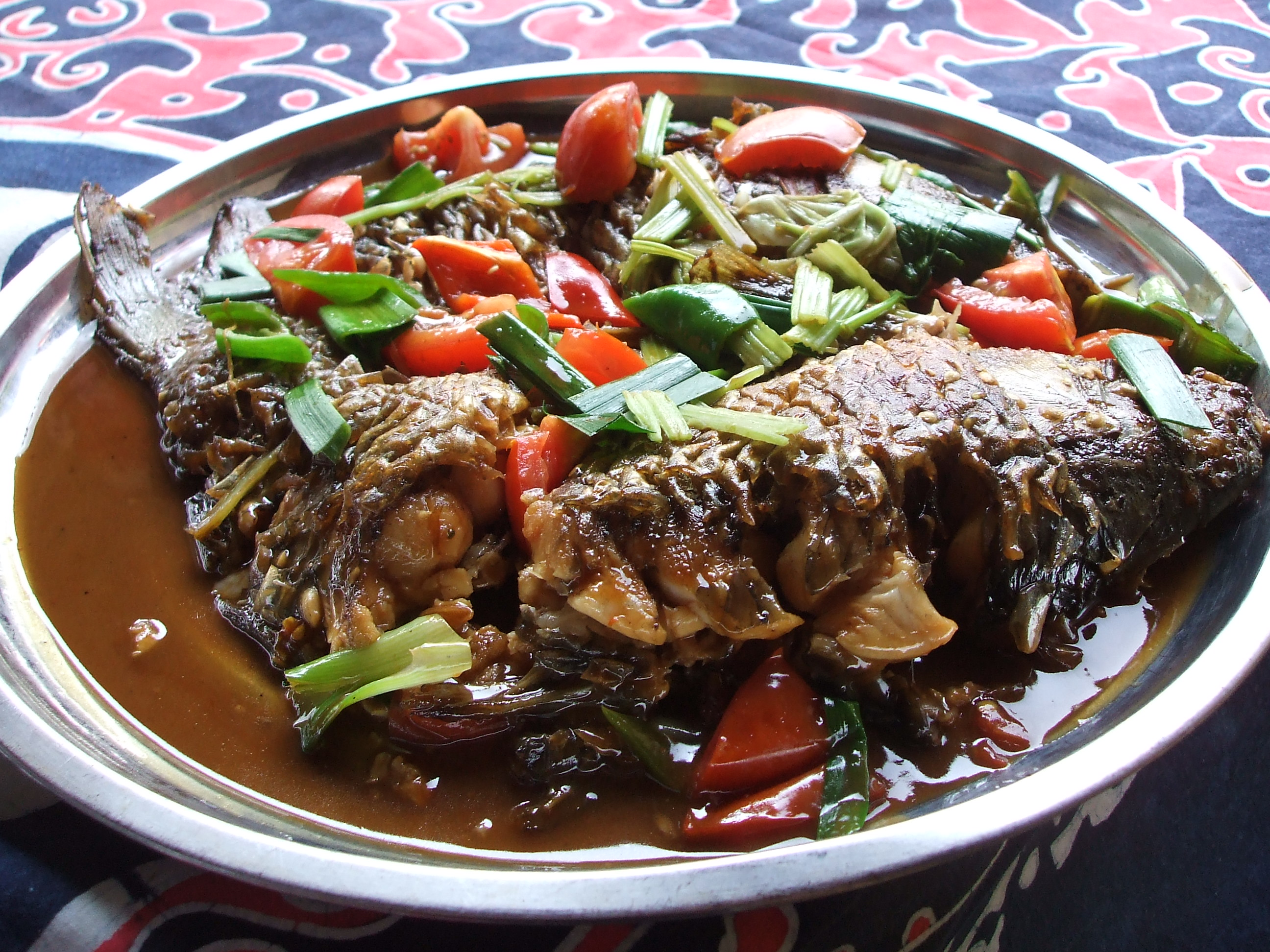 A local speciality